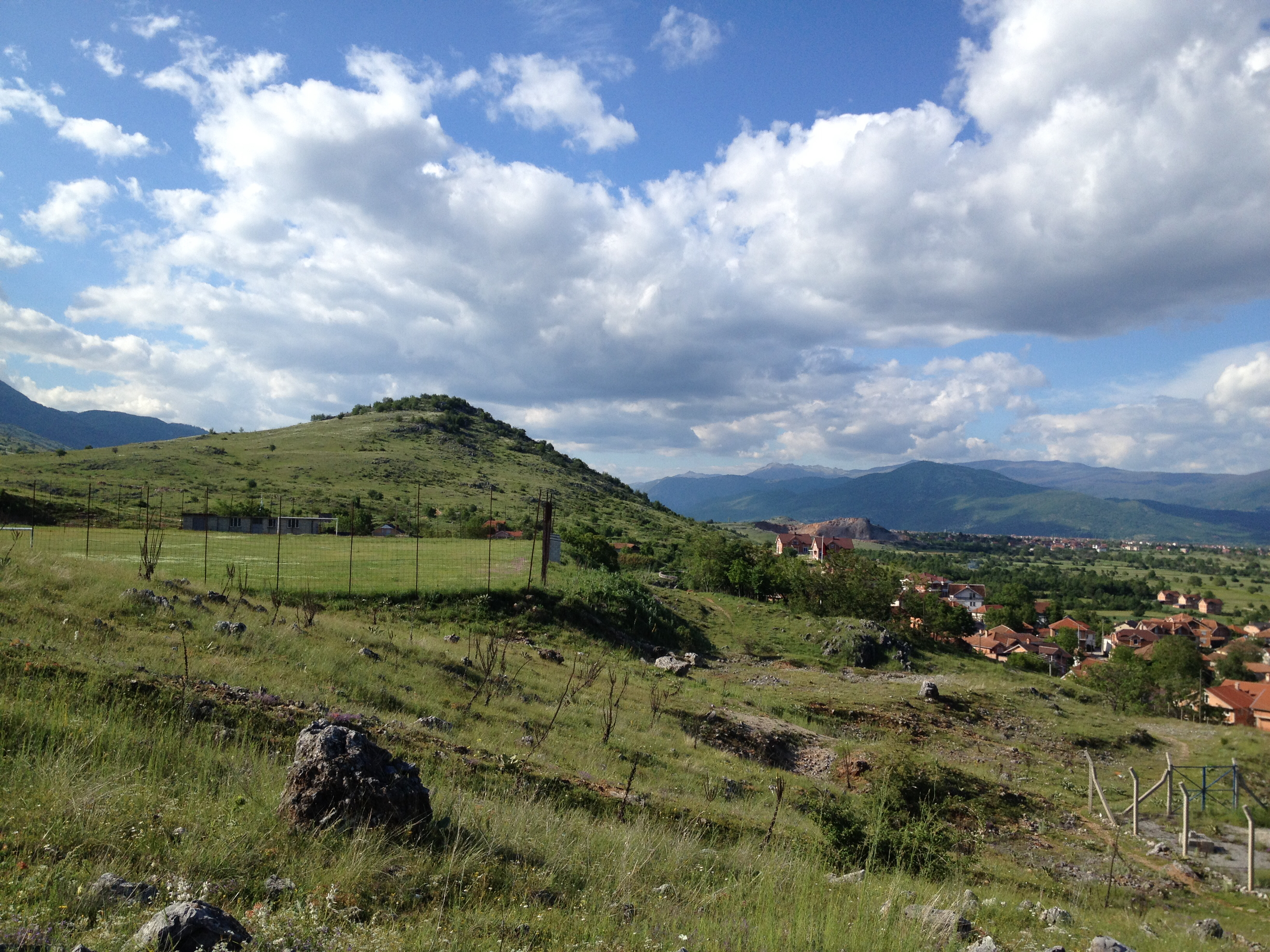 Peak of Spasi